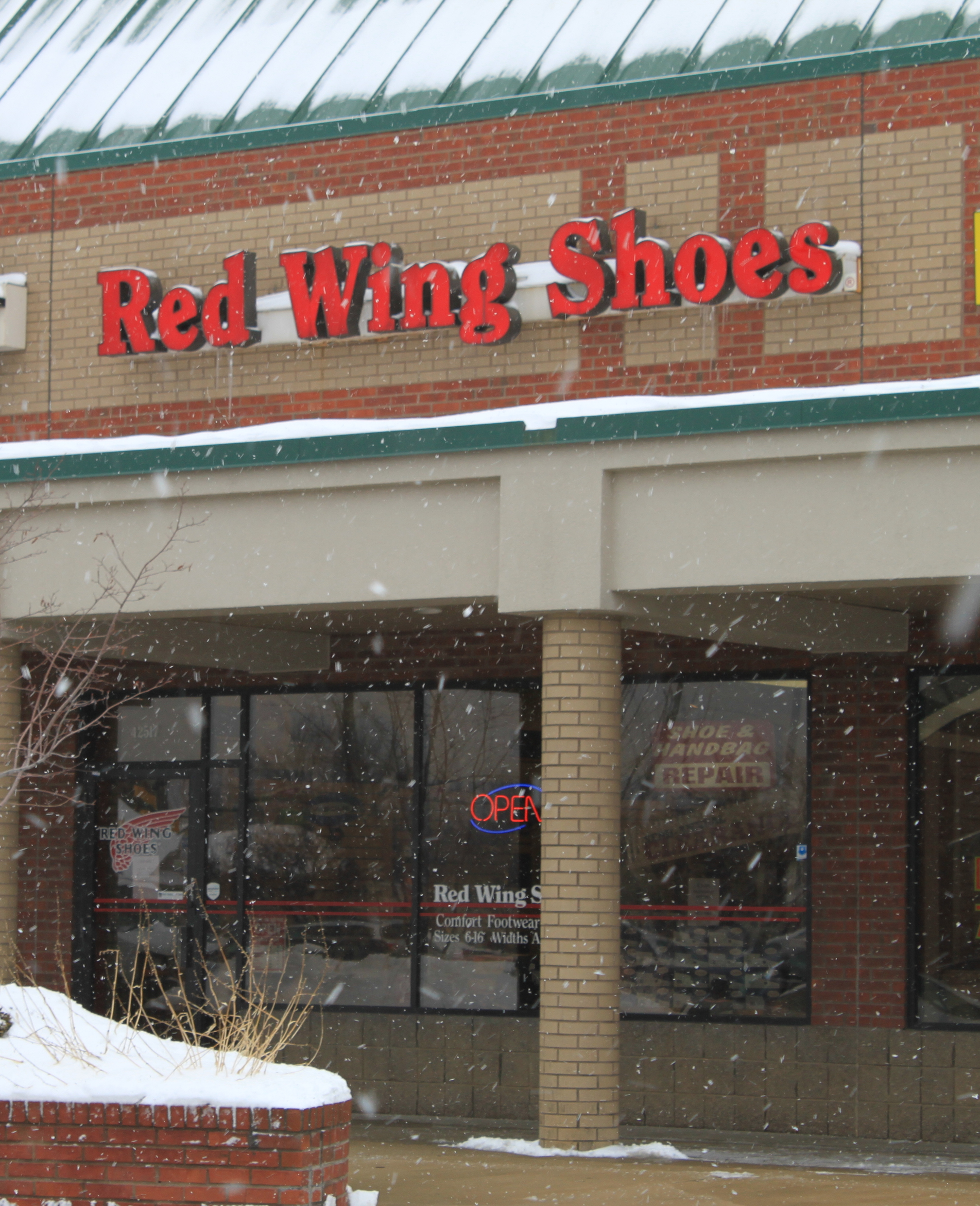 Red Wing Shoes store, 42517 Ford Road, Canton, Michigan